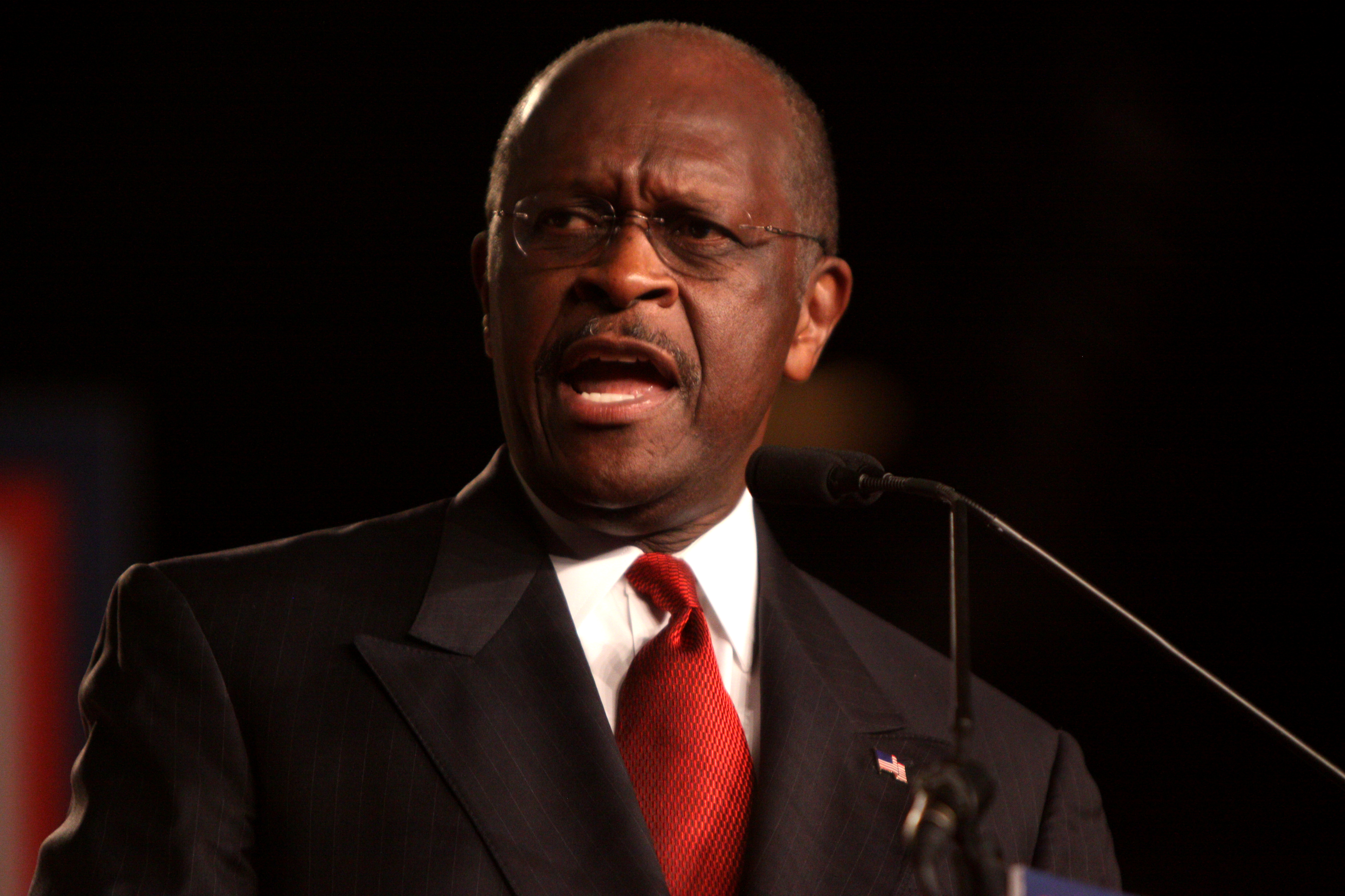 Herman Cain speaking at CPAC FL in Orlando, Florida.